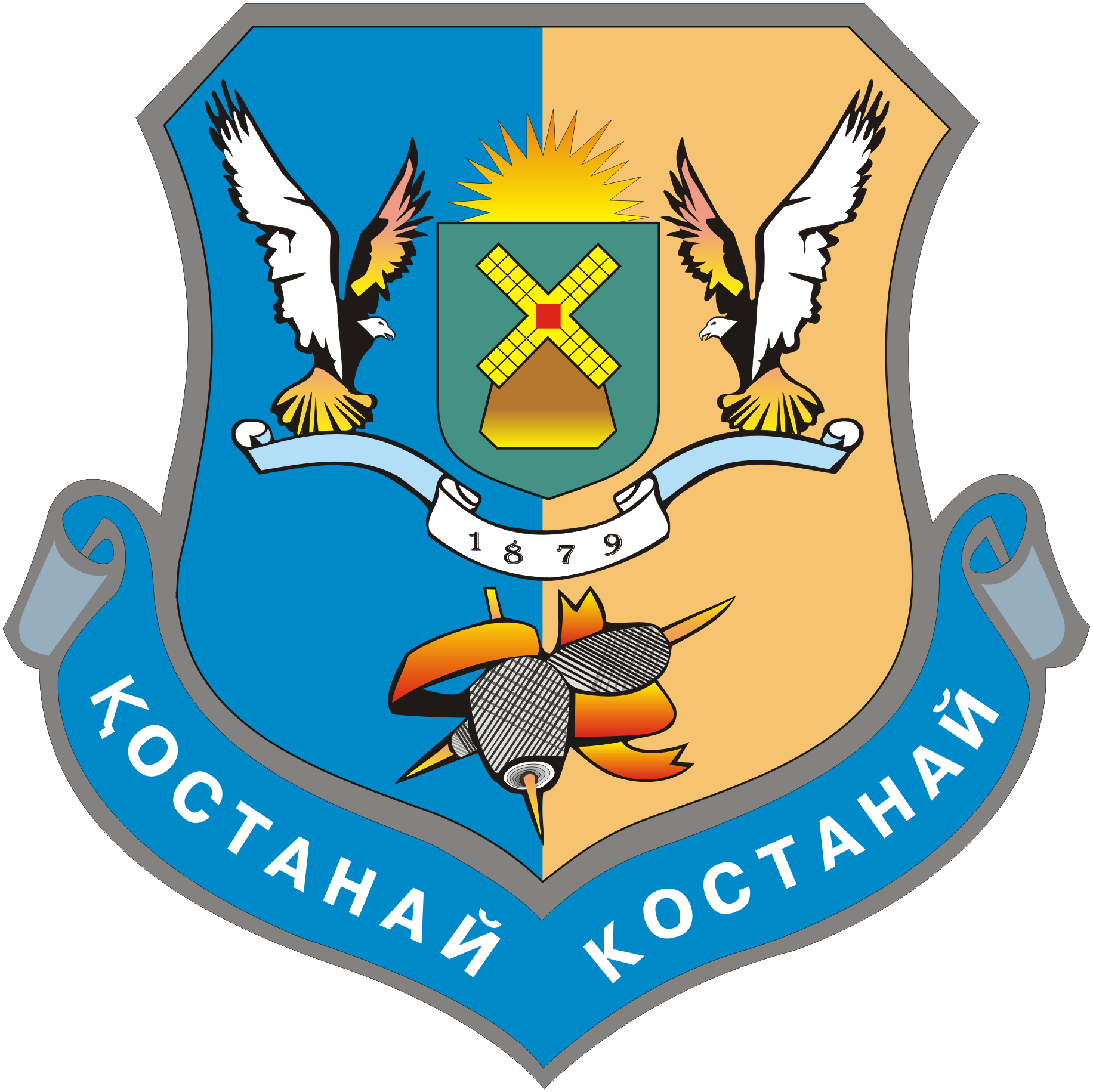 Coats of arms of Kostanay